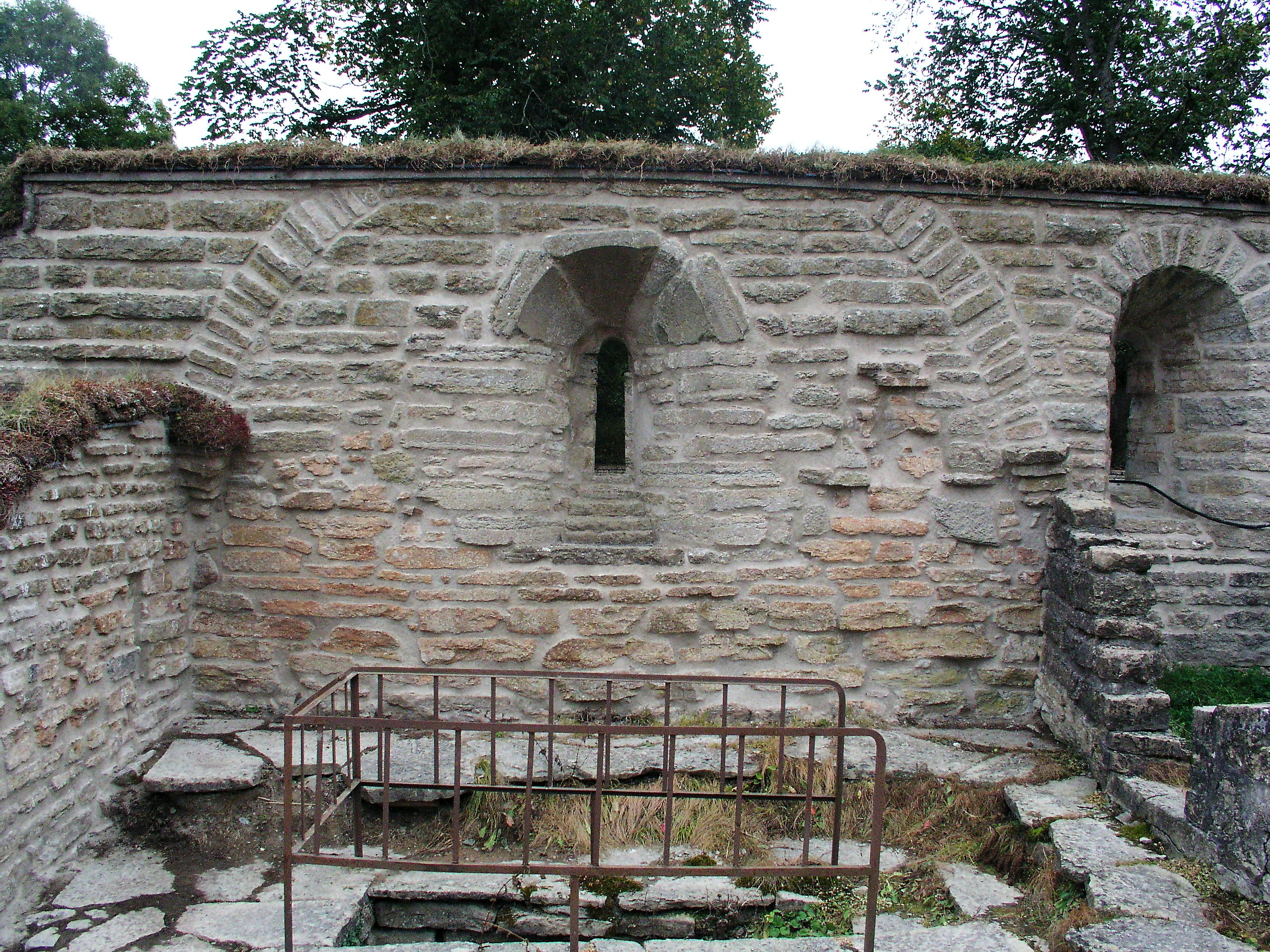 Vreta kloster. Restorated walls in the monastery. The photo was taken by Håkan Svensson (Xauxa) the 28th September 2003.